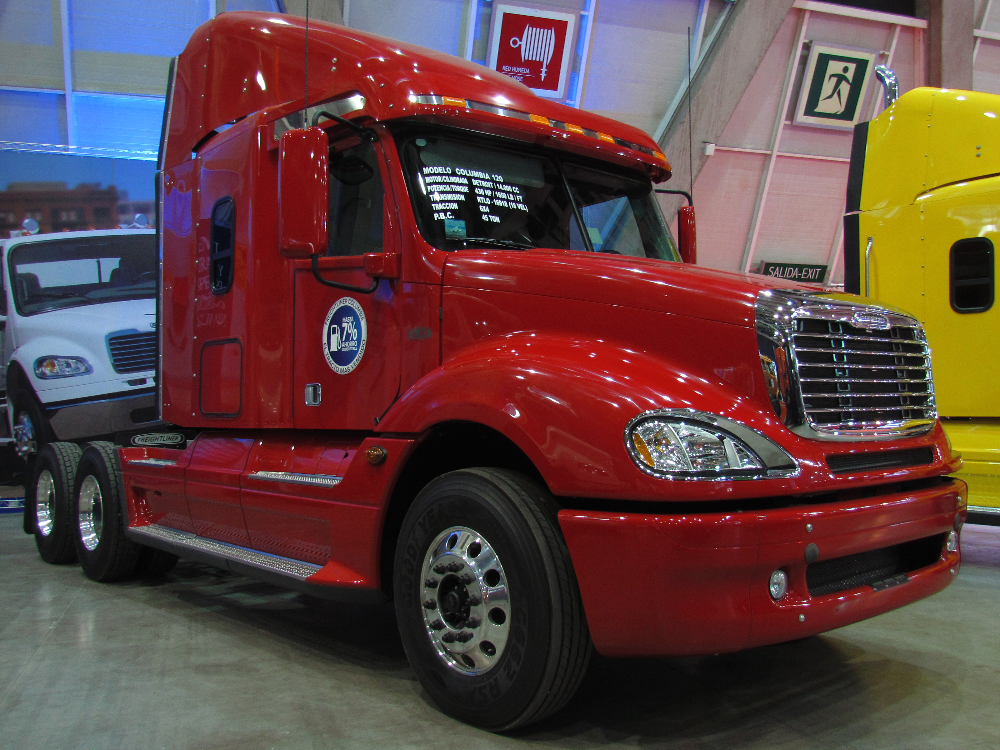 Freightliner Columbia CL120 2014.